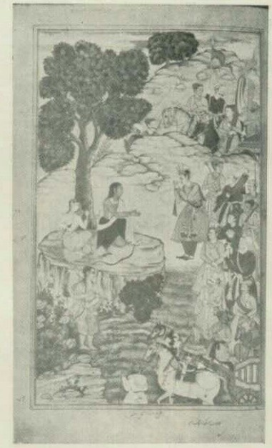 Story of Ramayana